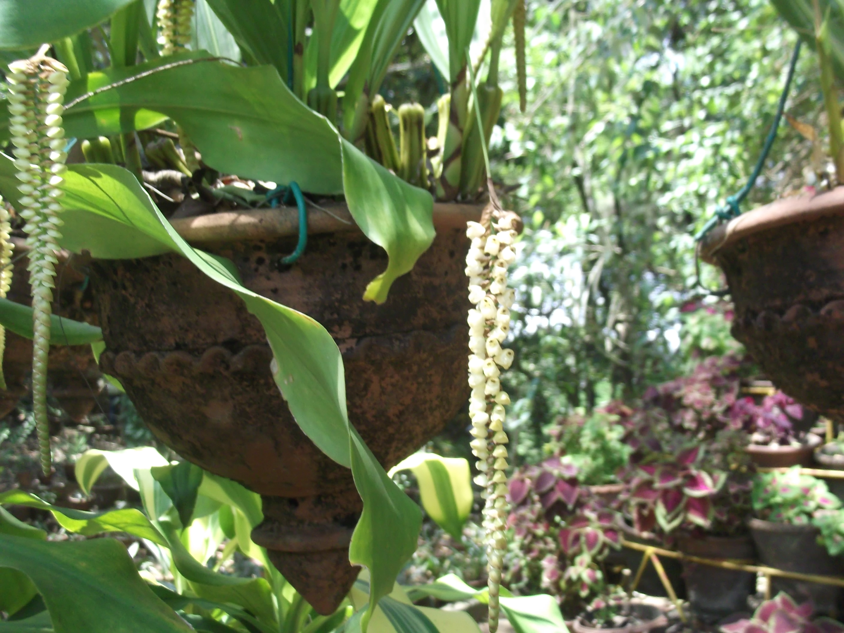 Epiphyte,psudobulbs lanceolate,chain like,bendules,hanging flowes,brownish,fragrant.